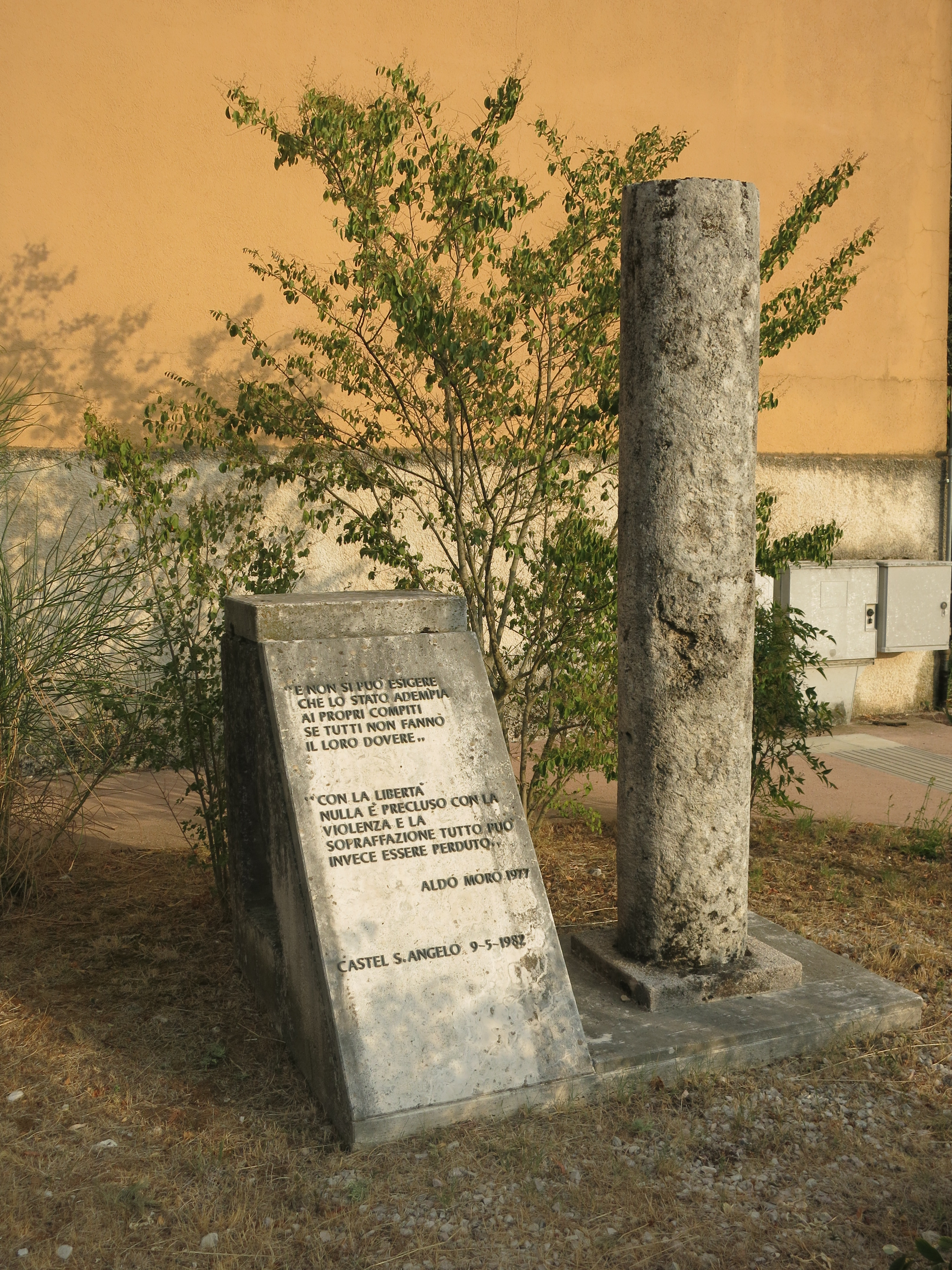 Memorial to Italian statesman Aldo Moro located outside the Castel Sant'Angelo train station (province of Rieti, Lazio, Italy).